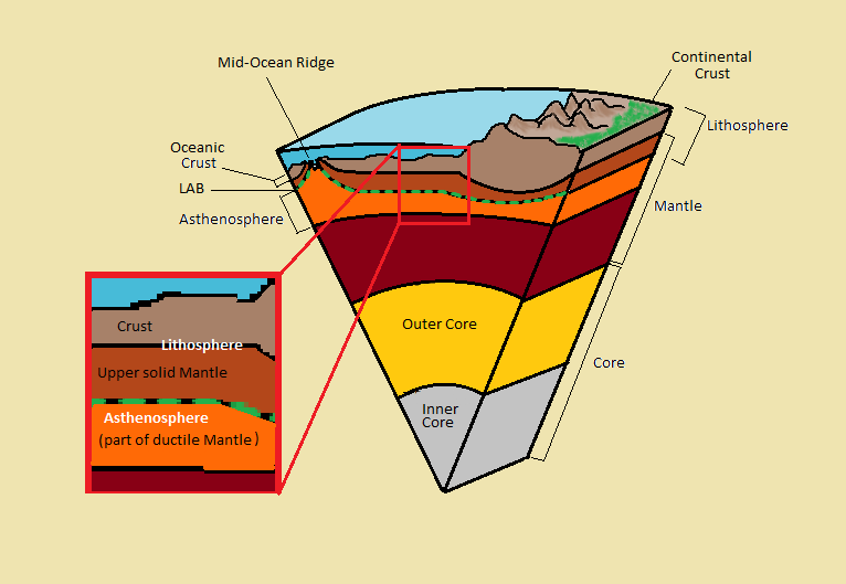 Image of Earth's inner layers particularly noting the Lithosphere-Asthenosphere boundary.